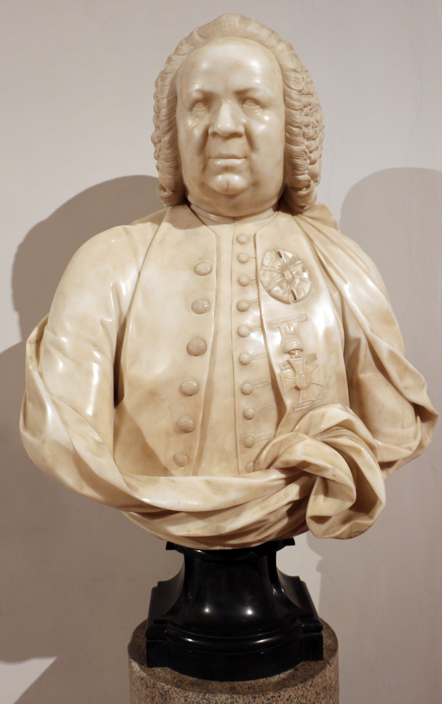 Fondazione Cavallini Sgarbi, on exhibition in Osimo (2016)